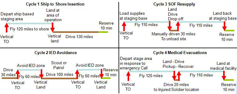 Transformer (TX) flying car specs.